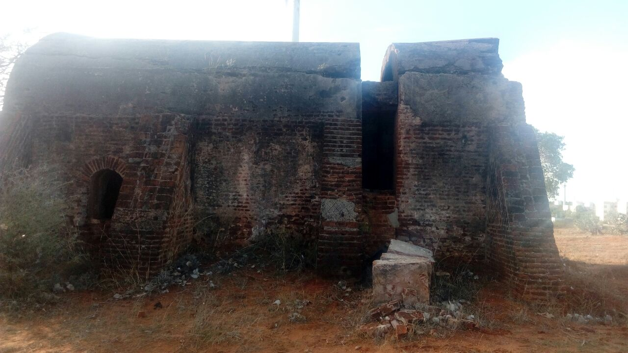 செட்டிகுளத்தின் கிழக்குப் பகுதியில் அமைந்துள்ளது.